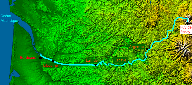 Map of Dordogne river made with France viewed by NASA Shuttle radar-imaging.